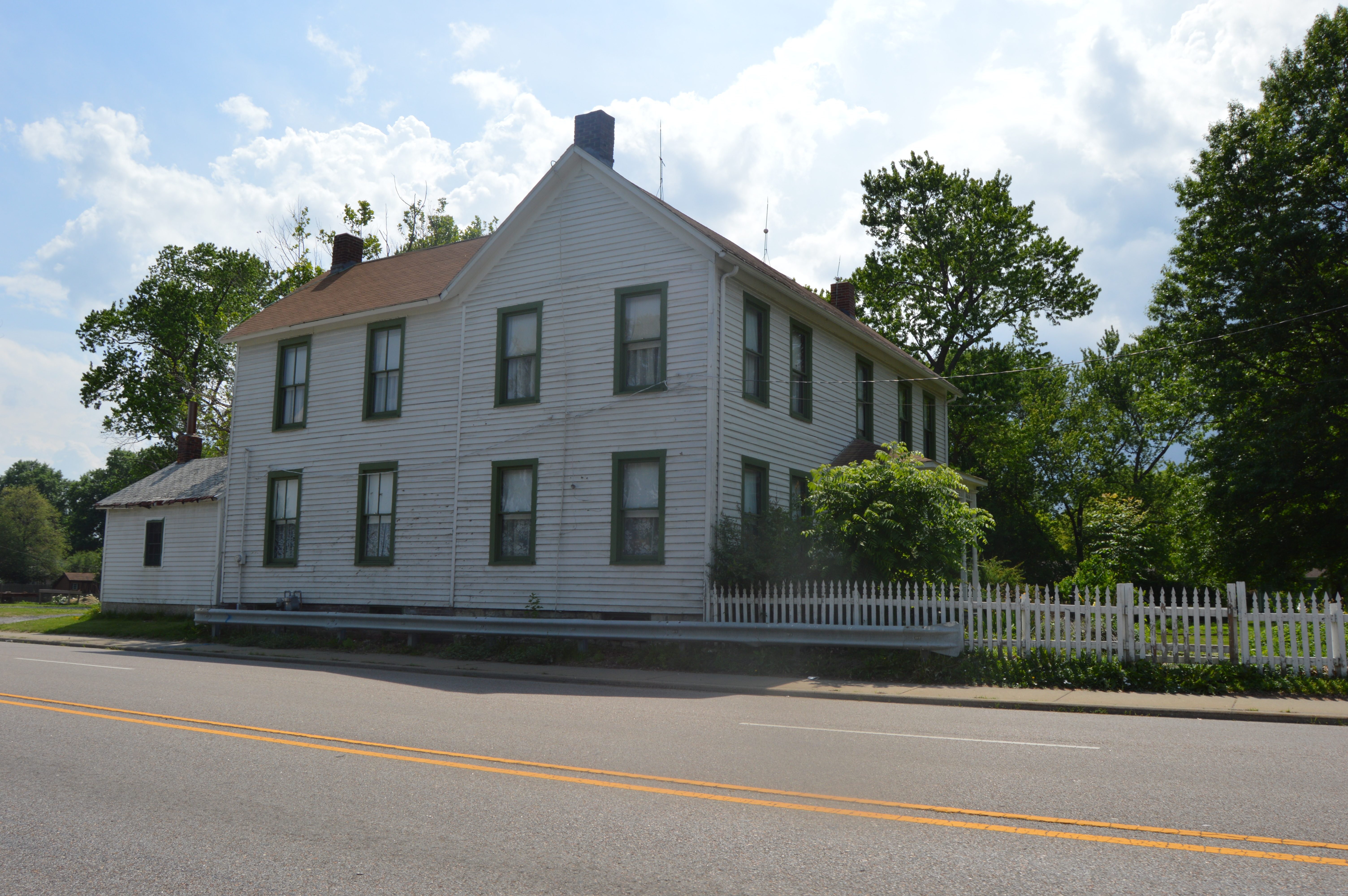 Front and eastern side of the Emmert-Zippel House, located at 3279 Maryville Road in Granite City, Illinois, United States. Built in 1837, it is listed on the National Register of Historic Places.